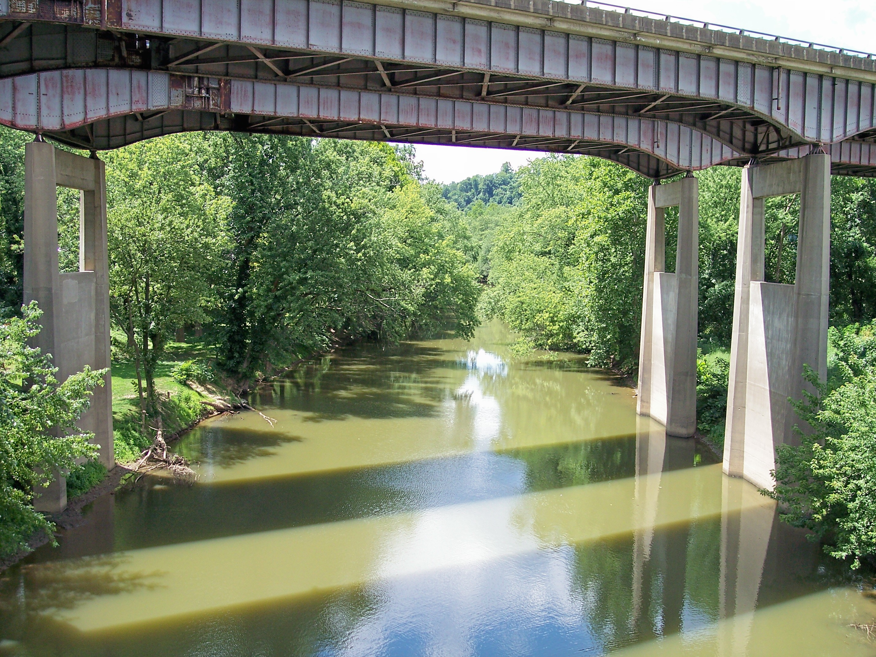 Twelvepole Creek as viewed upstream from High Street in Ceredo, West Virginia, flowing beneath Interstate 64.